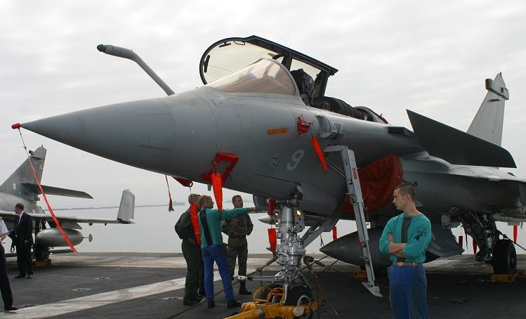 Rafale number 9 on the flight deck of the Charles de Gaulle aircraft carrier.